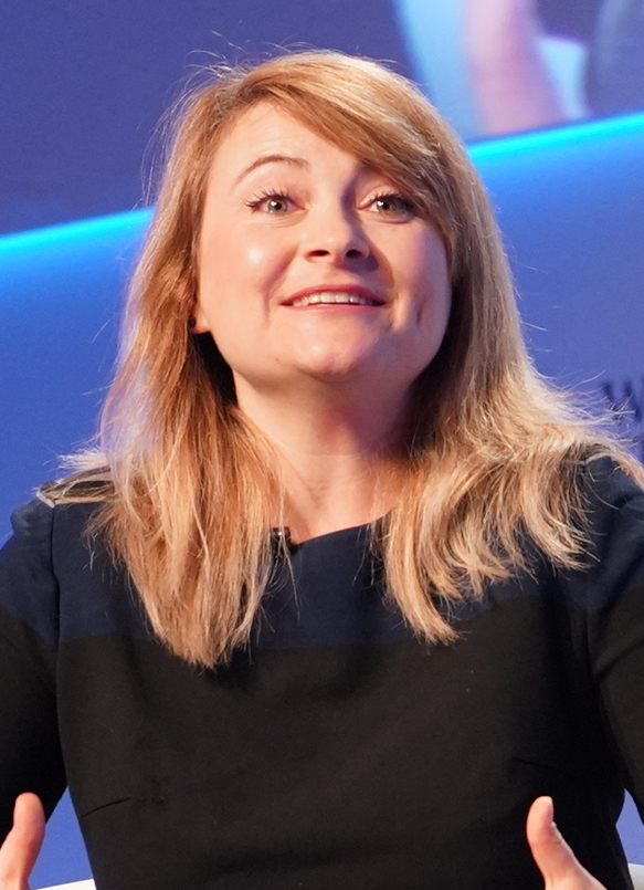 Moderator: Peter Greenberg, Travel Editor, CBS News Catherine Arnold, Head of Illegal Wildlife Trade Unit, Foreign and Commonwealth Office, United Kingdom